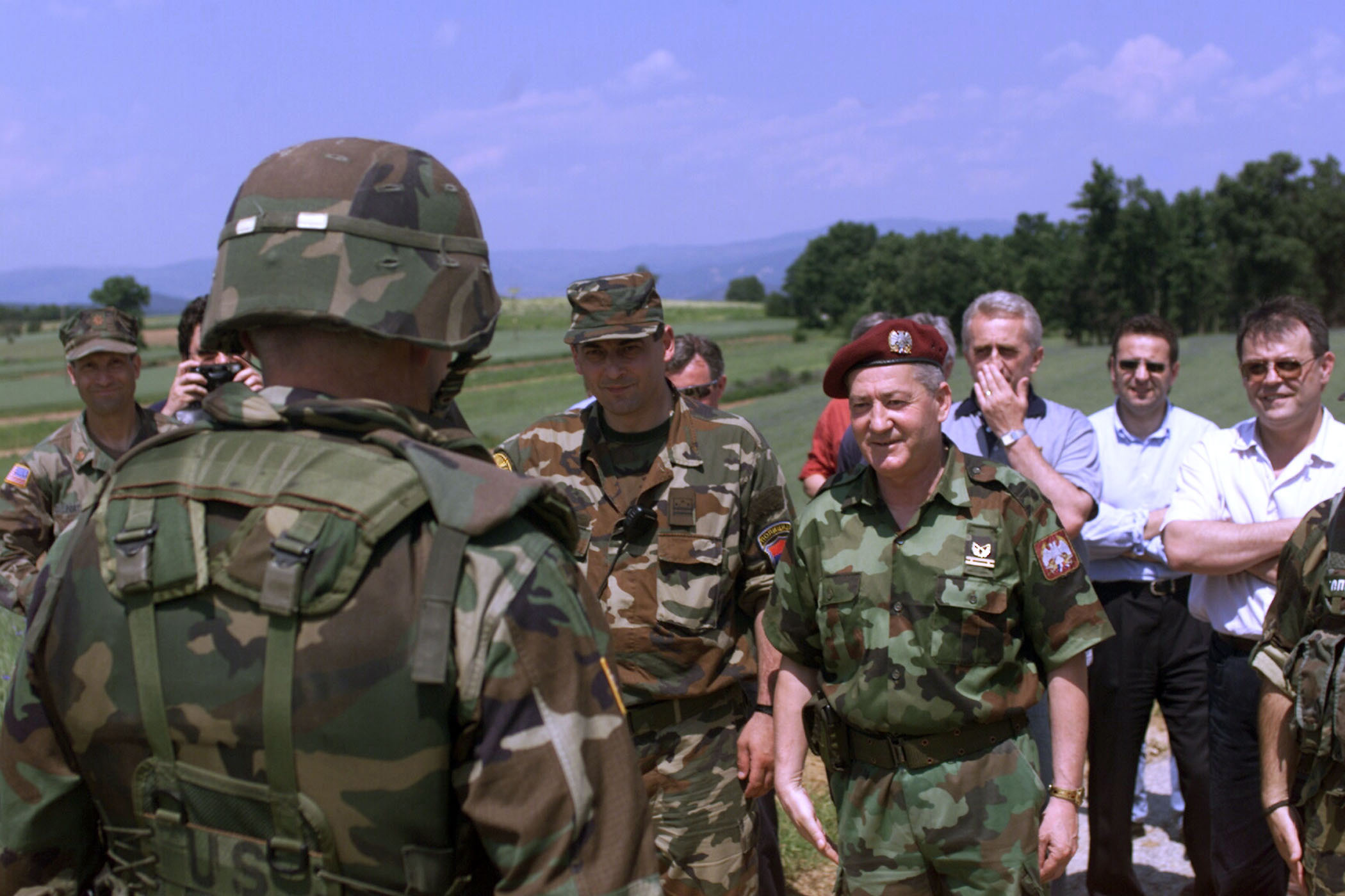 Brig. Gen Kenneth Quinlan, the Commanding General of Task Force Falcon meets Serbian Col.-Gen. Ninoslav Kerstic (wearing maroon beret) at the administrative boundary between Kosovo and Serbia to discuss the success of the Ground Safety Zone reduction on May 30, 2001. (U.S. Army photo by Spc. Richard F. Cancellieri) (Released)